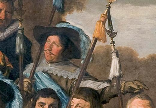 Portrait of Hendrik Coning in The officers and non-commissioned officers of the Saint George Civic guard in Haarlem in 1639, detail